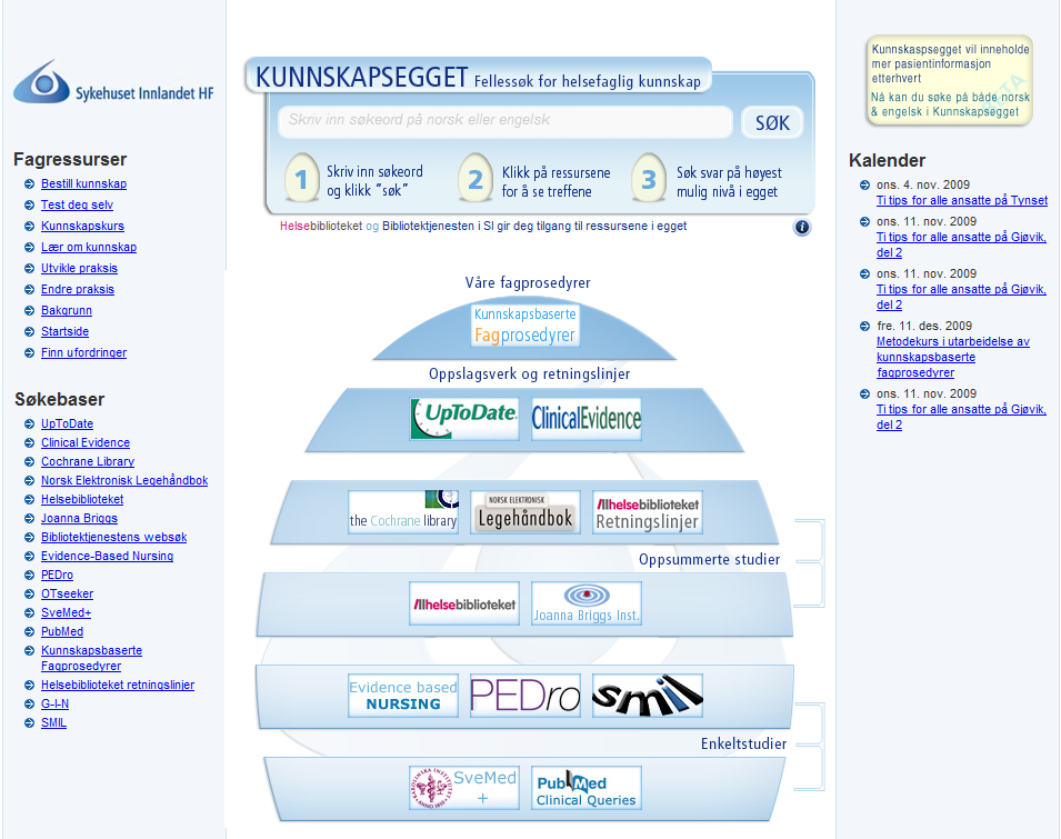 Description in the article "Kunnskapsegget" in Wikipedia